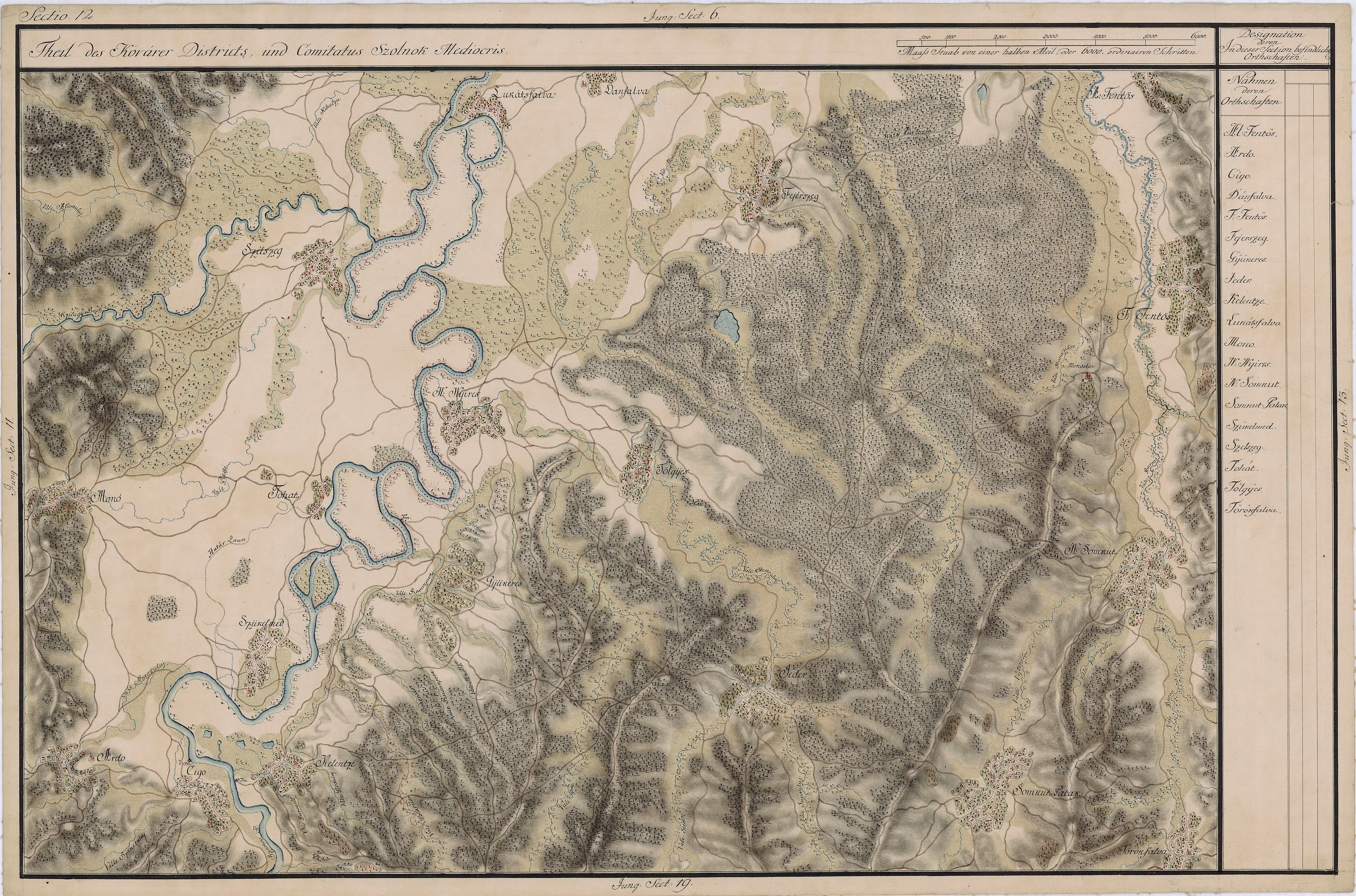 Grand Duchy of Transylvania, 1769-1773. Josephinische Landaufnahme pg.012